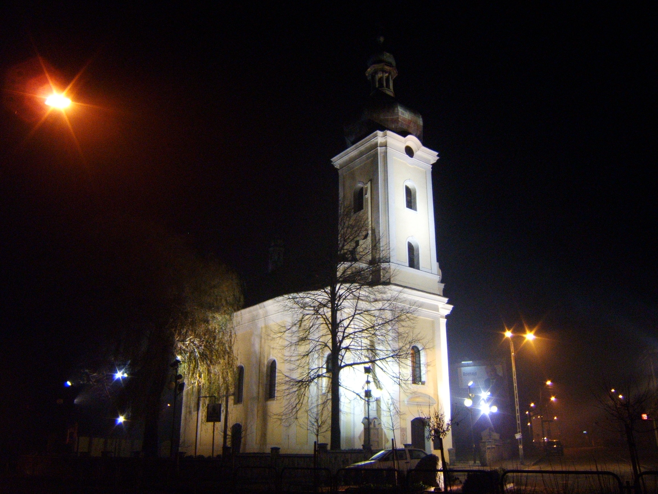 Church of Our Lady of Lourdes in Kochłowice, district of Ruda Śląska (Poland) by night.